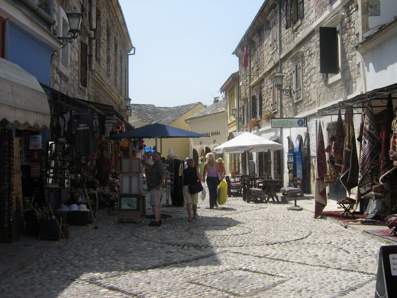 Mostar. Old part of town.